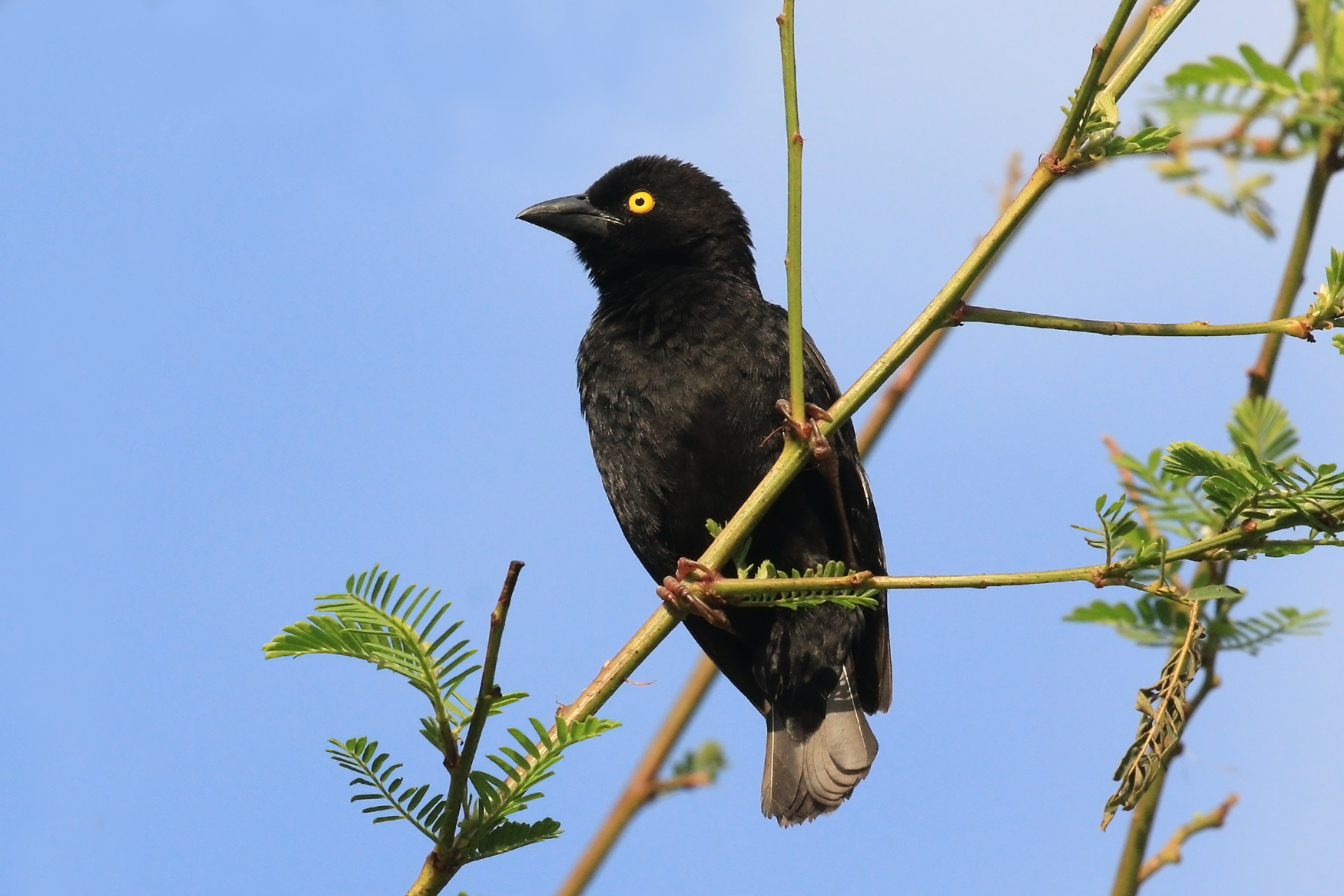 Vieillot's black weaver (Ploceus nigerrimus), Bwindi Impenetrable Forest, Uganda